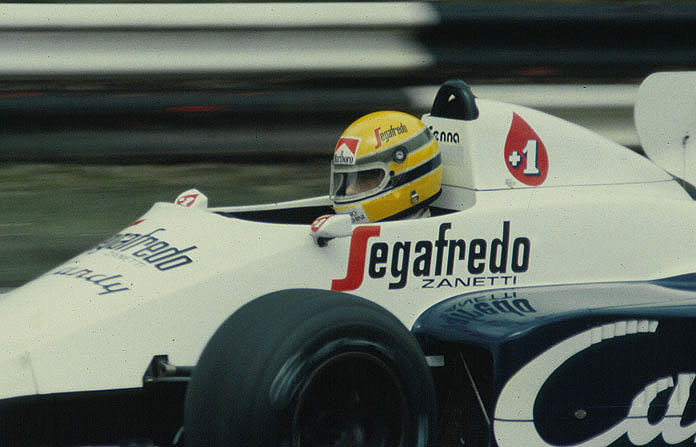 Ayrton Senna driving the Toleman TG184 at Brands Hatch. Brands Hatch 1984, round ten of the F1 World Championship.